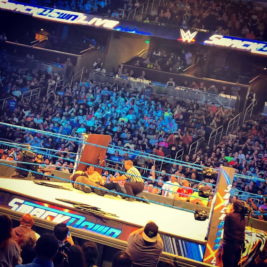 Just #Chillin! #DeanAmbrose #BaronCorbin #WWE #Smackdown #SmackdownLive #StreetFight